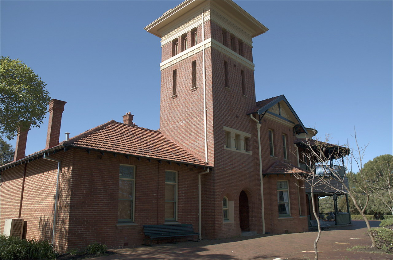 Old Perth Observatory — on Mount Eliza in Kings Park, Perth, Western Australia. The 1890s design was by the Western Australia government's Principal Architect George Temple Poole.